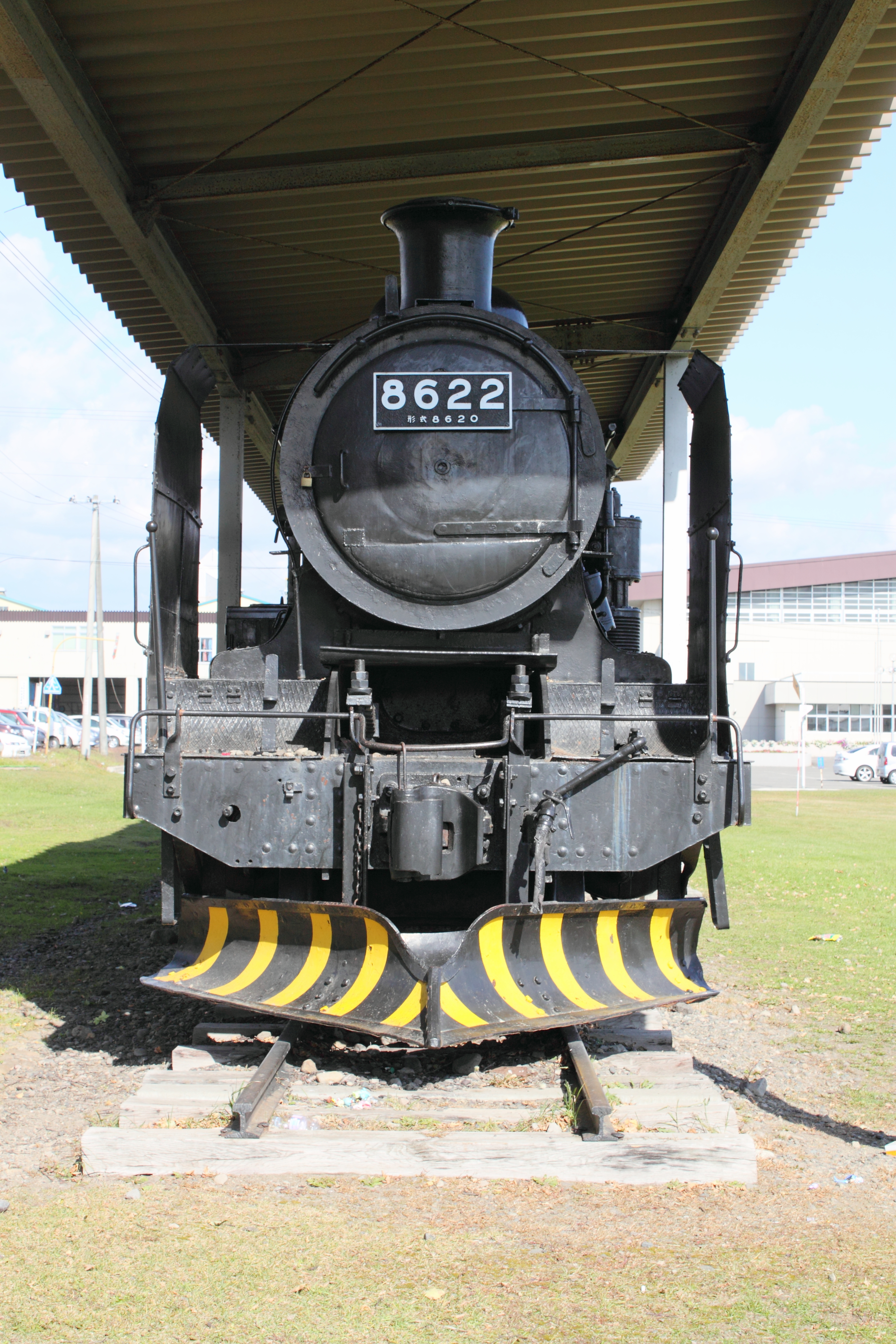 Hokkaido Takushoku Railway Steam Locomotive 8622, Shikaoi, Hokkaido, Japan.